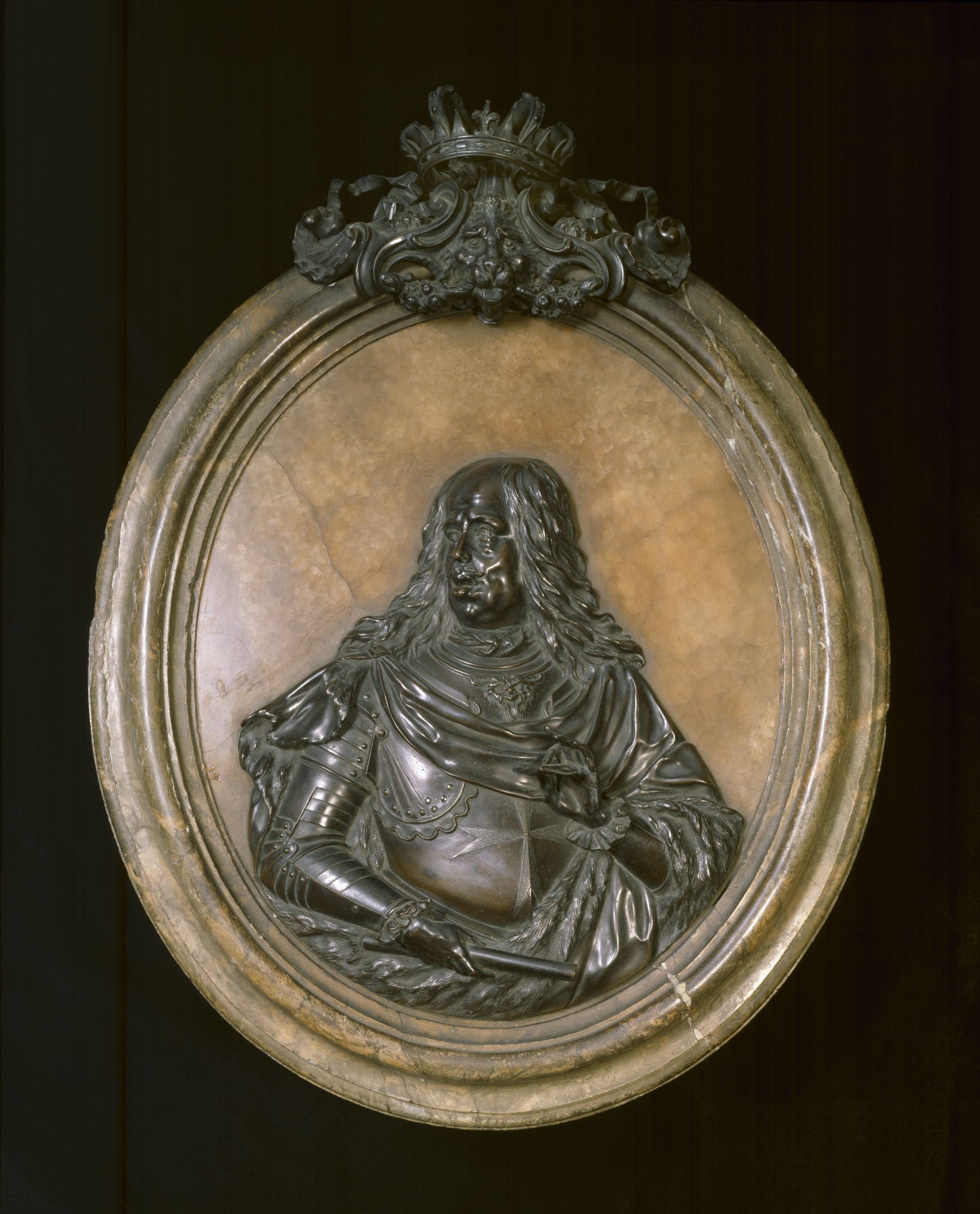 Cosimo III de' Medici (1642-1723) ruled Tuscany for more than 50 years. Although his reign was an economic disaster, he was a great collector and patron of the arts, initiating a new golden age of sculpture in Florence. The duke was not attractive, but Soldani created a dignified portrait, combining a lively expression and splendid armor, engraved with the cross of the military order of St. Stephen of which he was Grand Master. The naturalism and vigor Soldani imparts to his works mark him as the last in the great tradition of Florentine bronze sculptors that began in the 15th century.